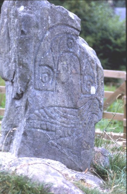 Eagle Stone. Clach an Tiompain in Gaelic, this is a Class 1 incised stone, with a horseshoe symbol above an eagle.